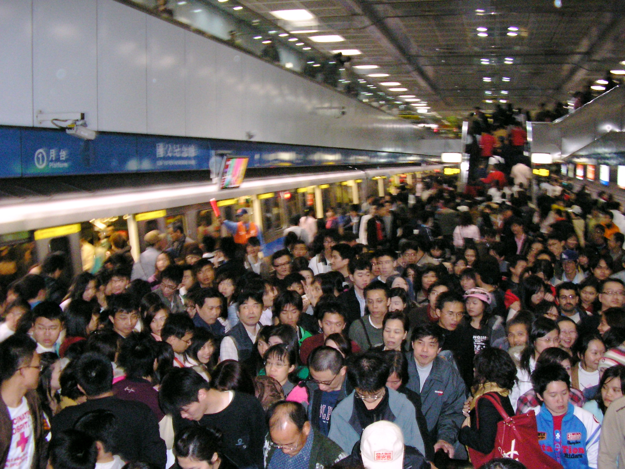 Crowds of people pouring onto the platform at the Taipei Rapid Transit System's Sun Yat-sen Memorial Hall Station on New Years Eve, 2005. Taken by User:Changlc.